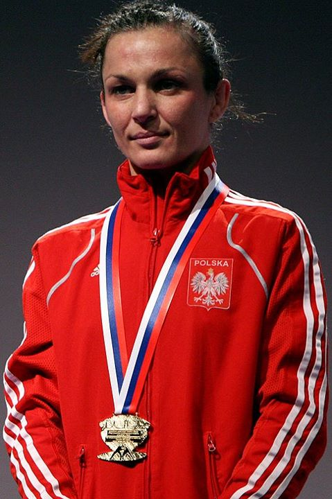 Iwona Matkowska PZZ - Polski Związek Zapaśniczy